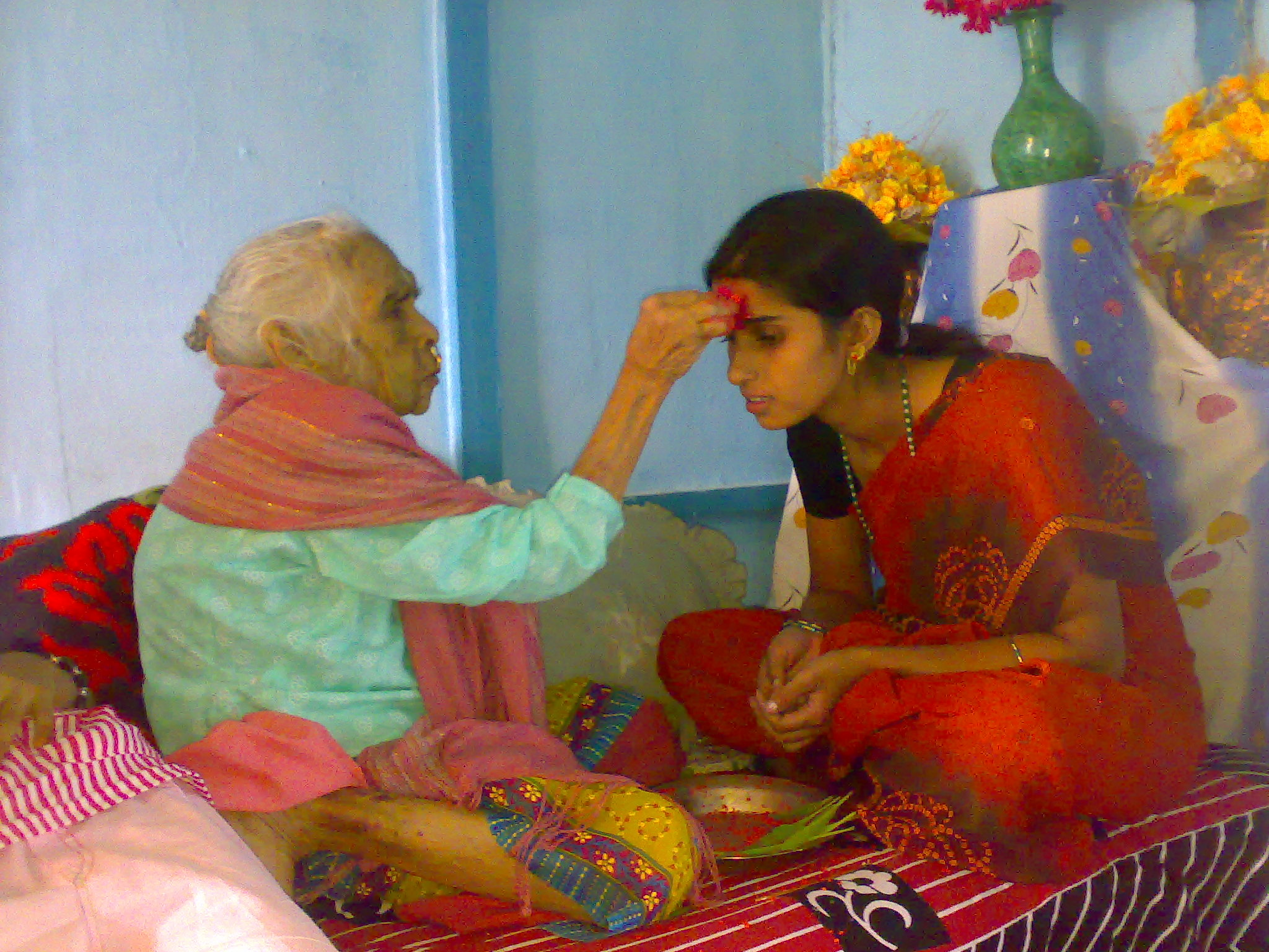 This is snap of Bhaitika